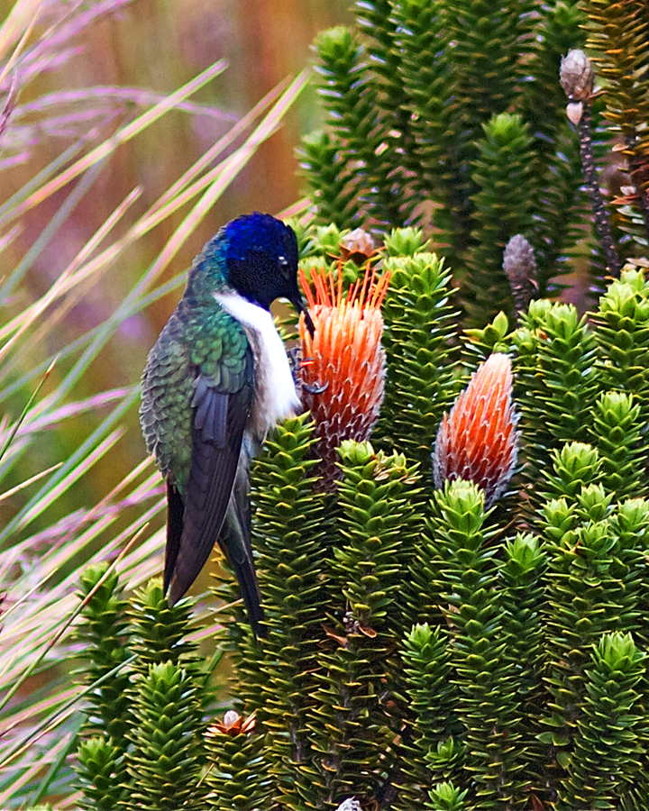 Ecuadorian Hillstar on Chuquiragua flower, taken at Papallacta Pass (Cayambe-Coca Protected Reserve), Ecuador.